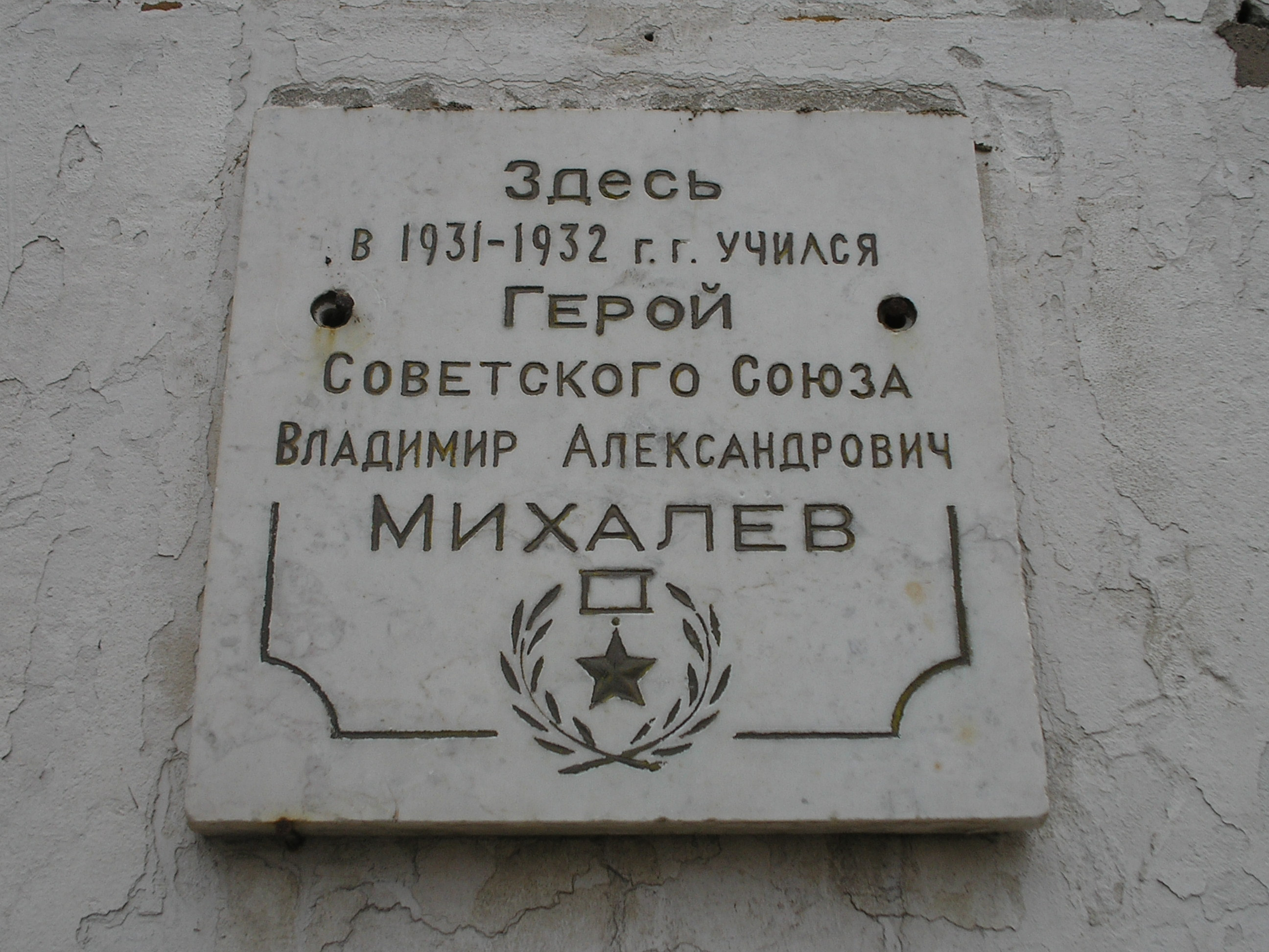 Rtishchevo. Memorial plate of Vladimir Mikhalev